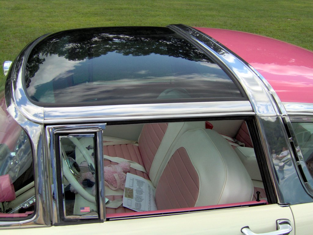 1955 Ford Crown Victoria Skyliner top detail